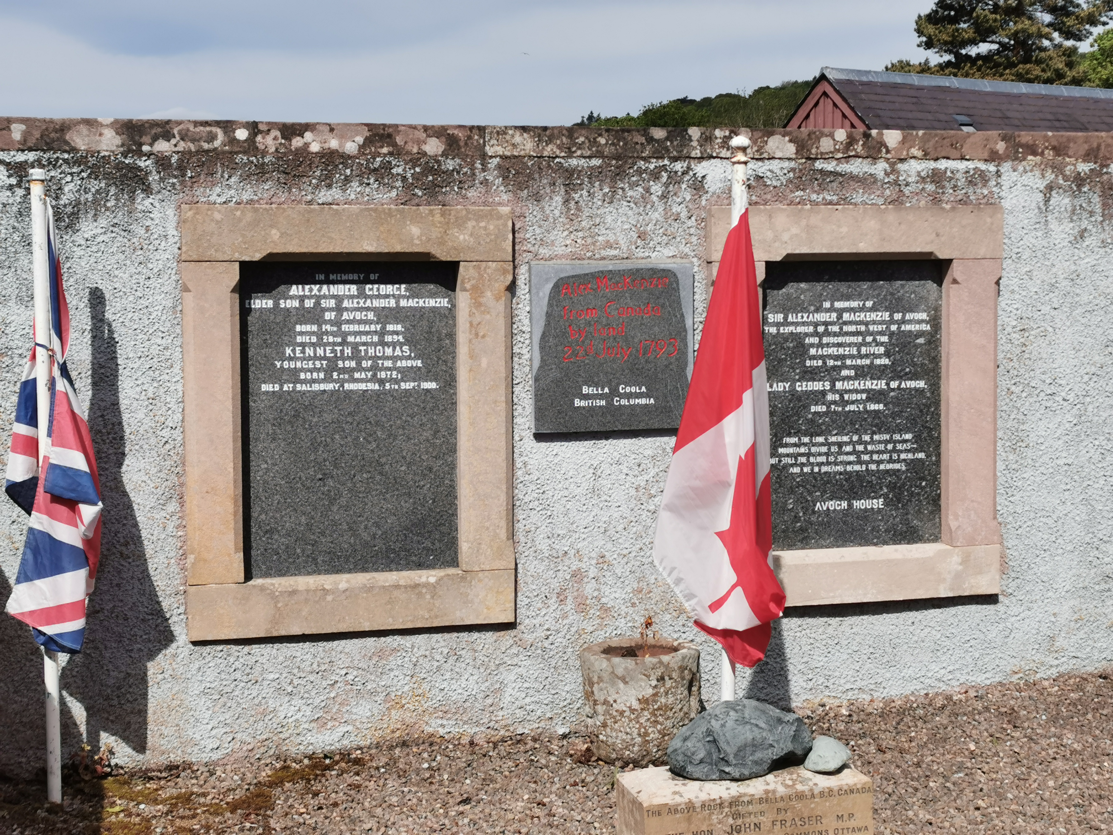 Photograph of Alexander Mackenzie's burial place in the village of Avoch, Ross Shire. Included is a replica of the stone he carved at Bella Coola in Canada.